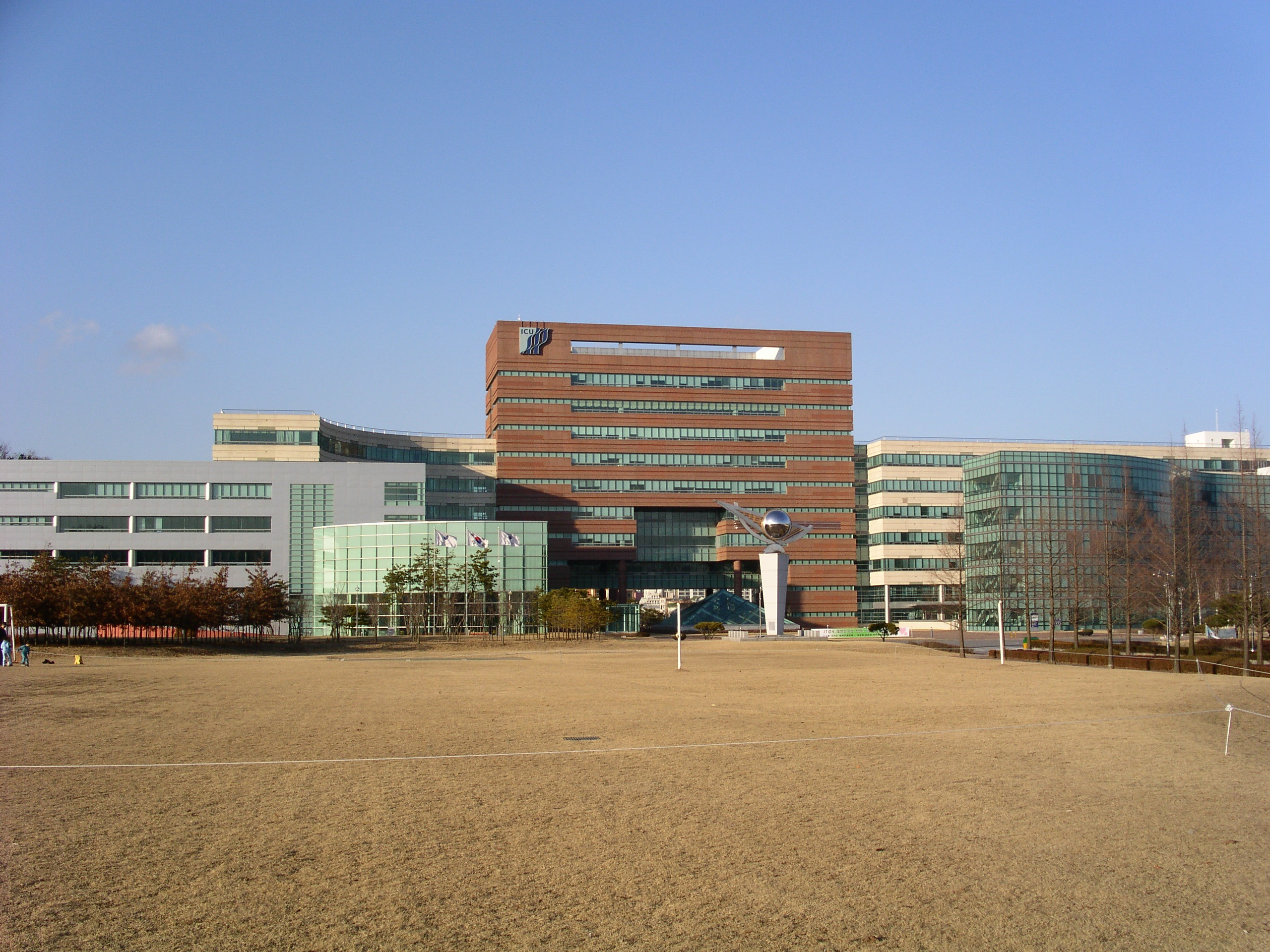 Photograph of the lecture, administration, faculty, and research buildings of the Information and Communications University.